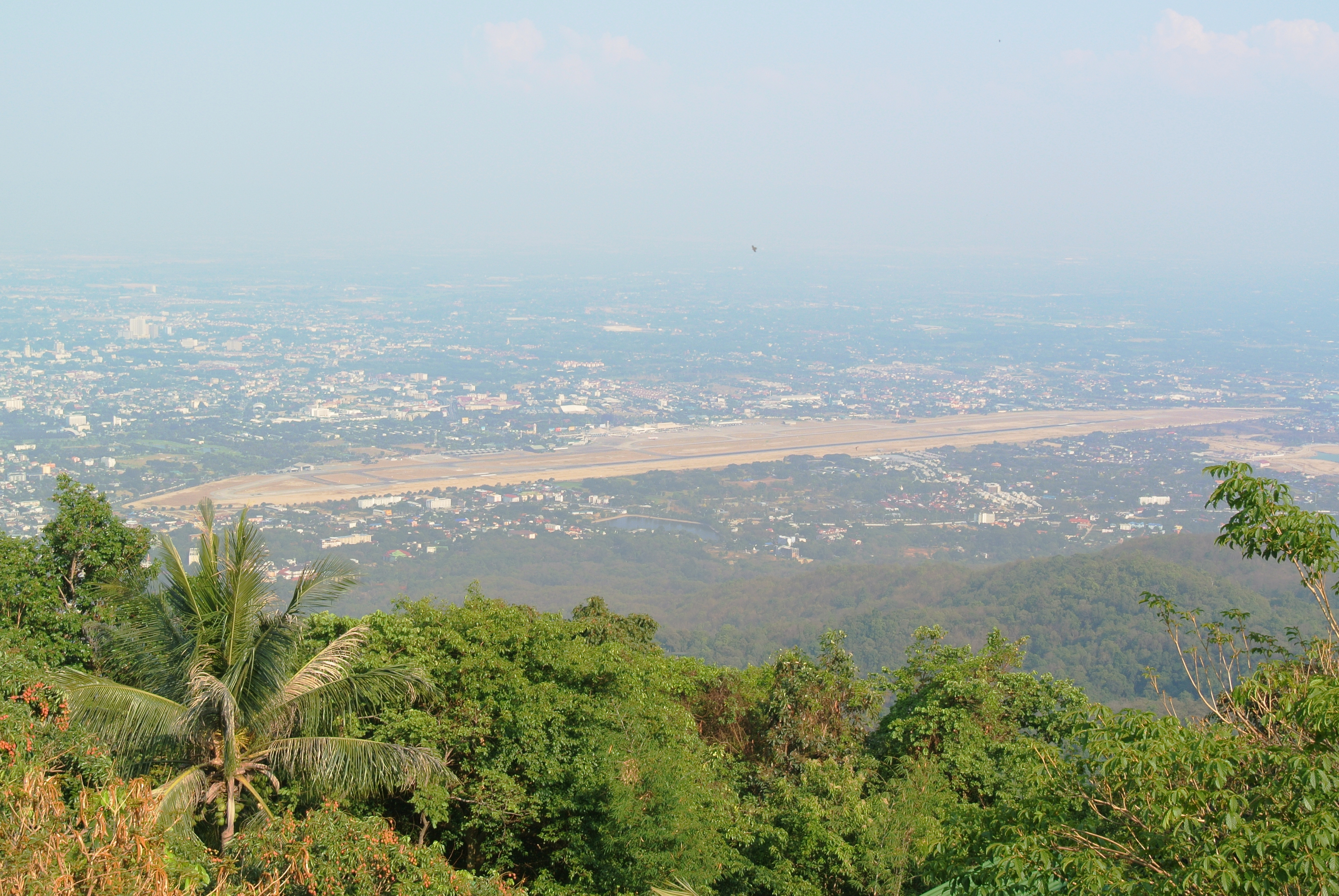 Aerial view of Chiang Mai International Airport's runways and of the southern part of the city. Picture taken from Doi Suthep temple.